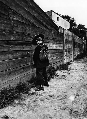 No title